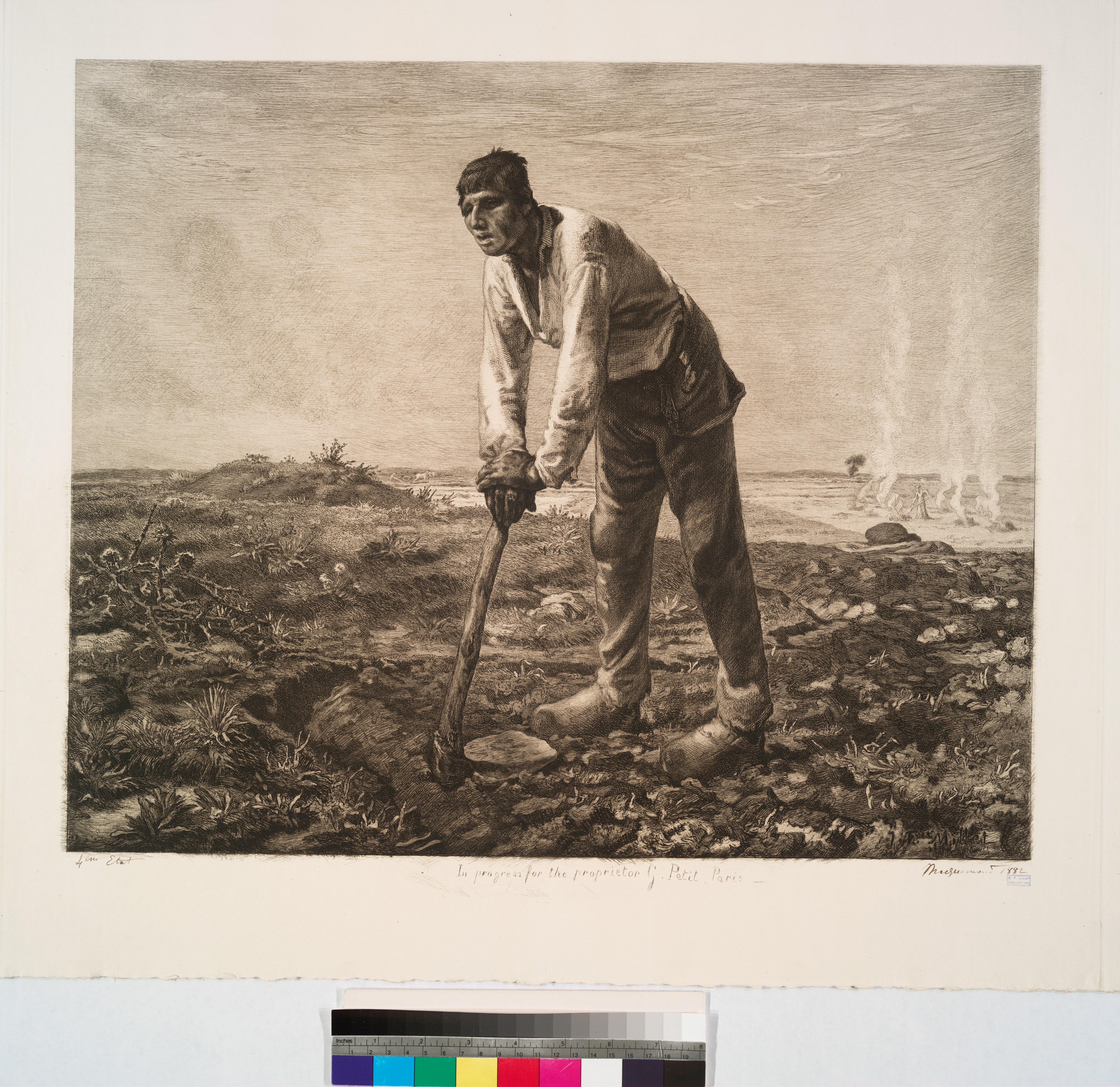 Title from H. Béraldi, Les graveurs du XIXe siècle, v. 3, p. 87. Citation/Reference: B345(IV/IX)